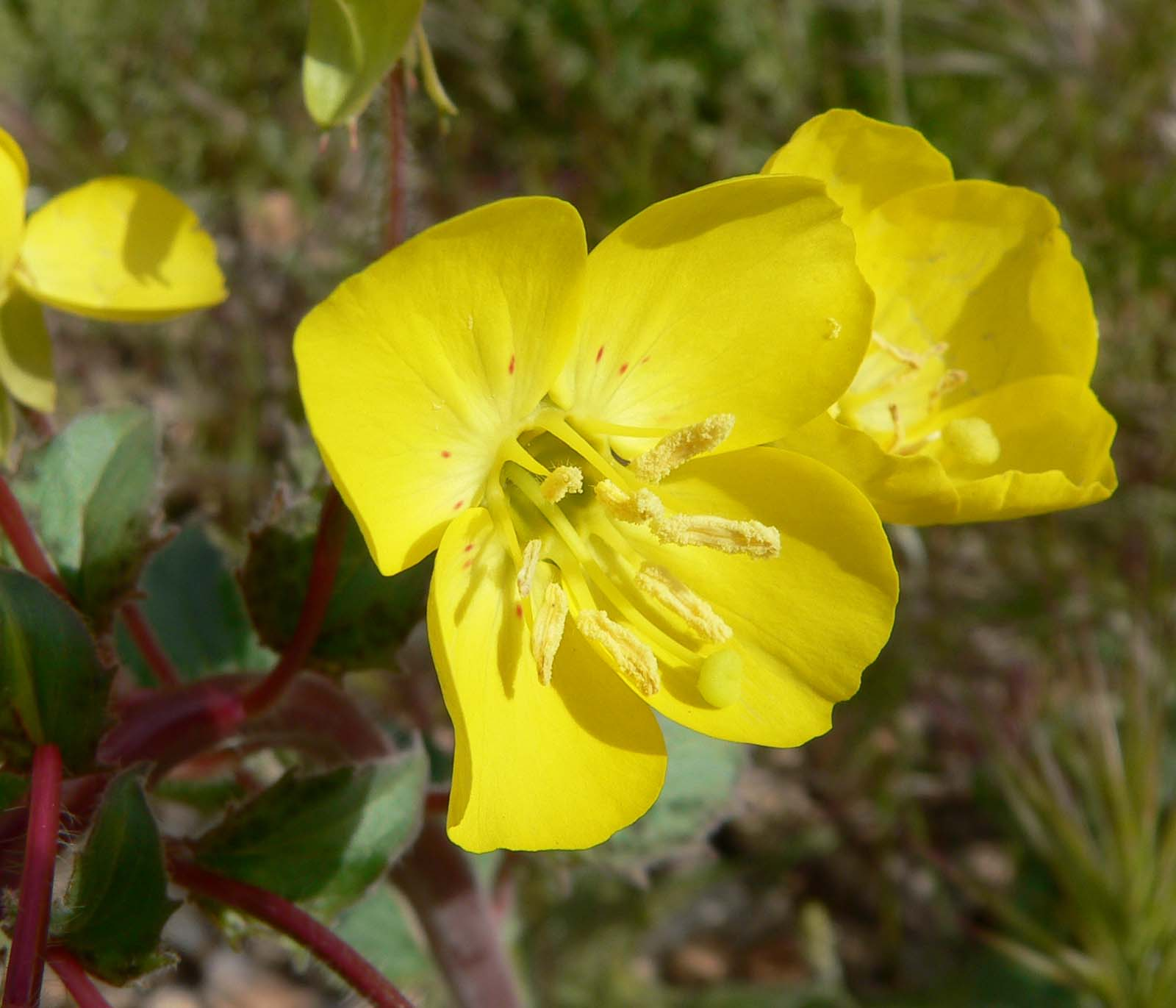 Photo of Camissonia brevipes (Mojave suncup) on the west side of Las Vegas, Nevada, just outside Red Rock Canyon